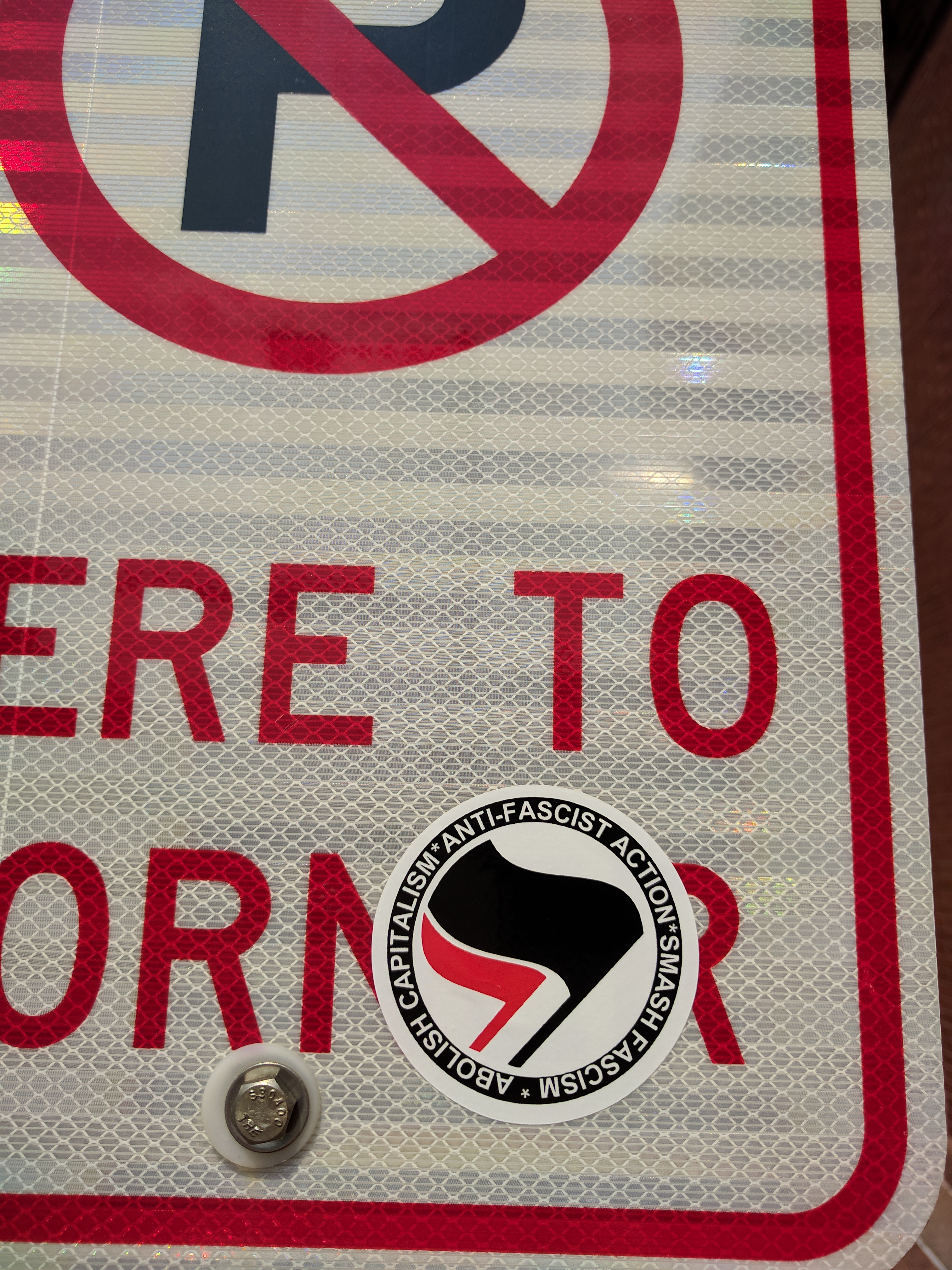 Duluth, Minnesota